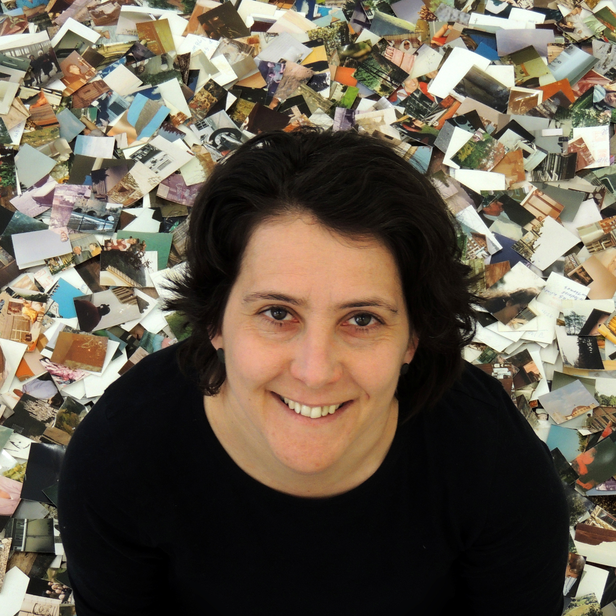 Letizia Werth, artist, born in South Tyrol, Italy - lives and works in Vienna, Austria